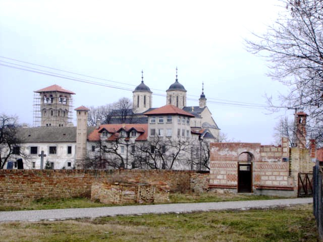 Kovilj monastery, near Novi Sad, Vojvodina (Serbia)